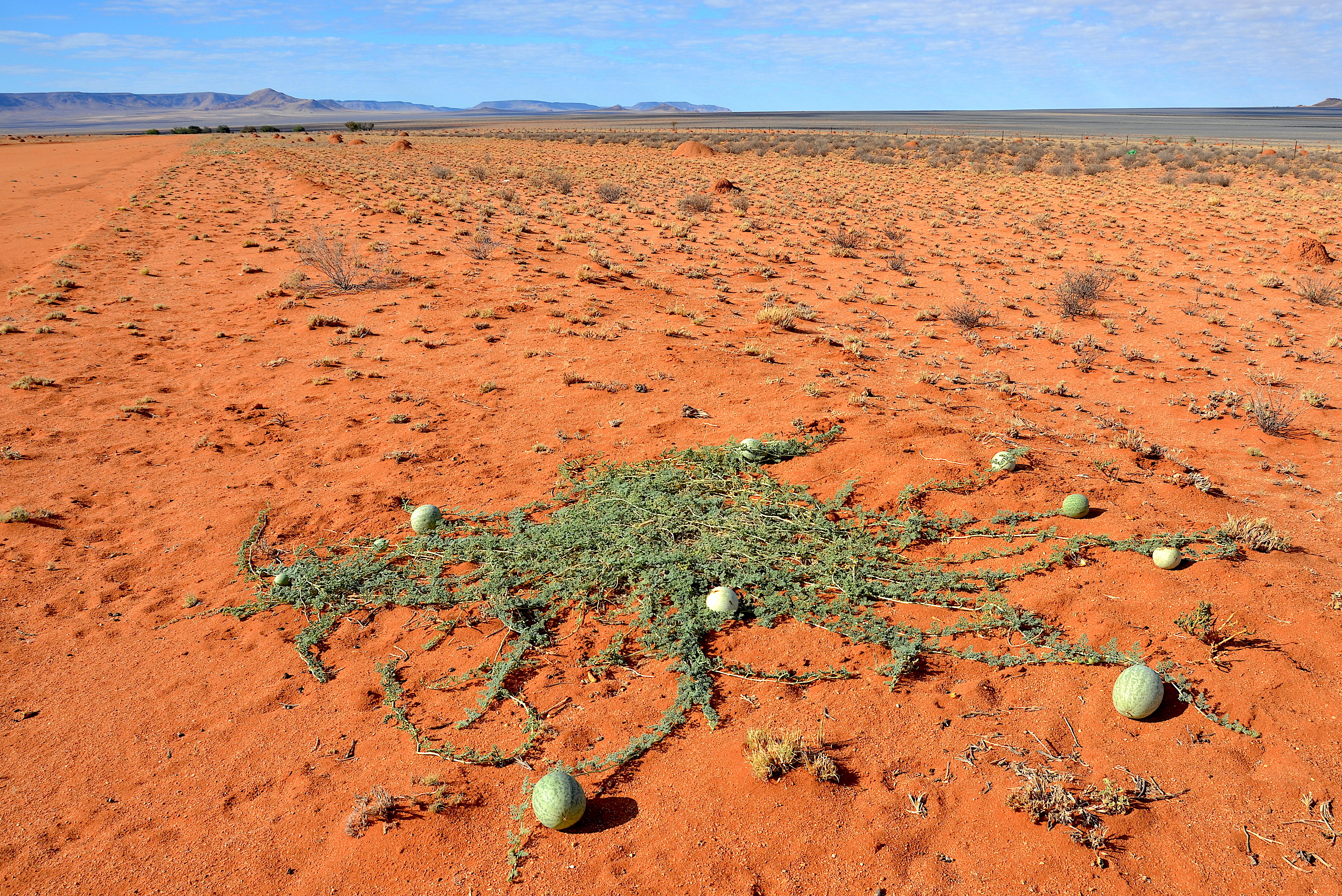 Tsamma melon in the Namib desert